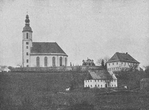 The church in Hainewalde